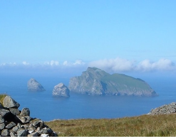 Boreray and the Stacs from Conachair, St Kilda.